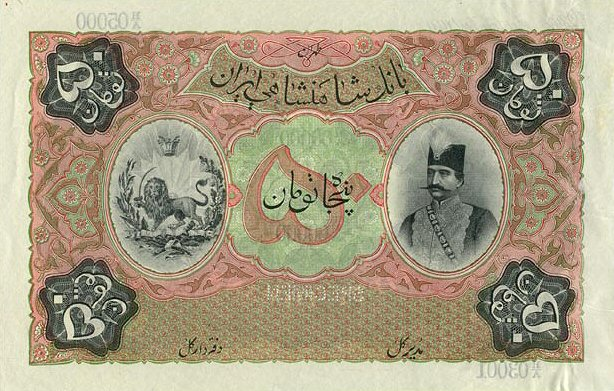 Banknote of Persia - 50 tomans; before 1911.